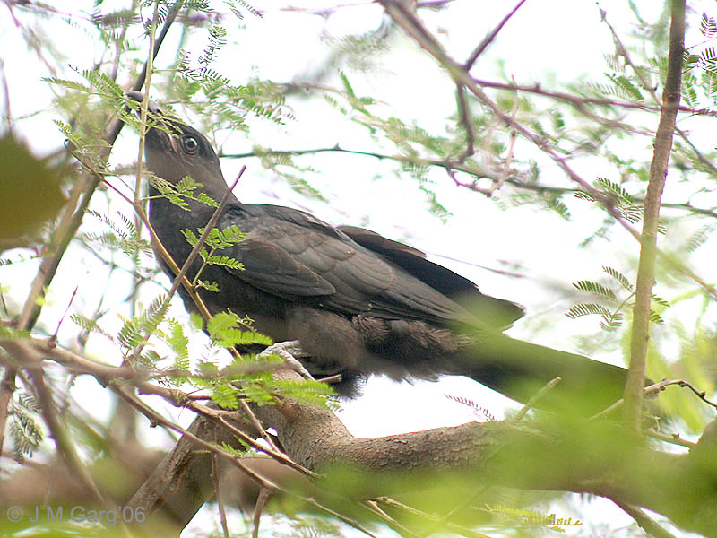 Asian Koel Eudynamys scolopaceus in Kolkata, West Bengal, India.